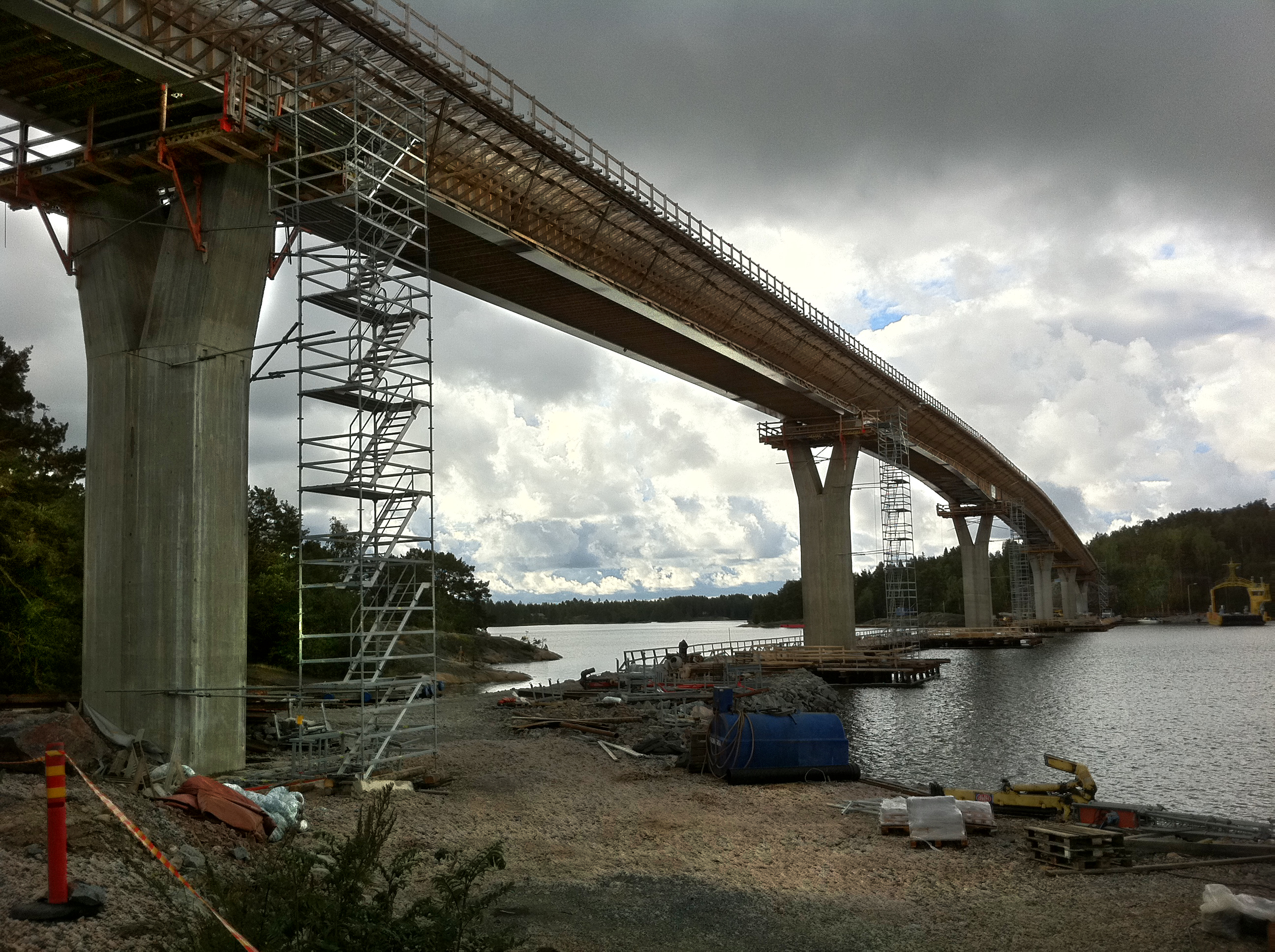 Lövö bridge under construction in Kimitoön, Finland